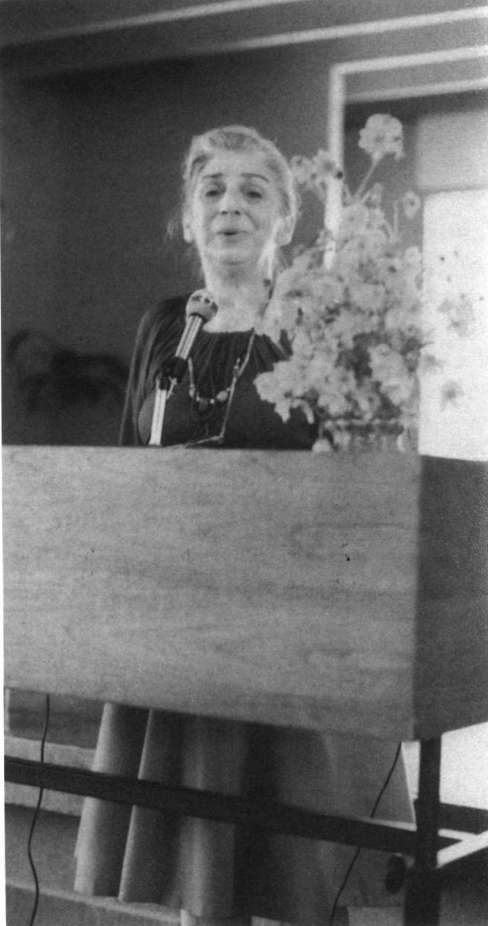 Annie Stein is seen here in August 1979, speaking at a memorial service for David Rein, who had been co-counsel to the Coordinating Committee. Courtesy, Richard Rein.